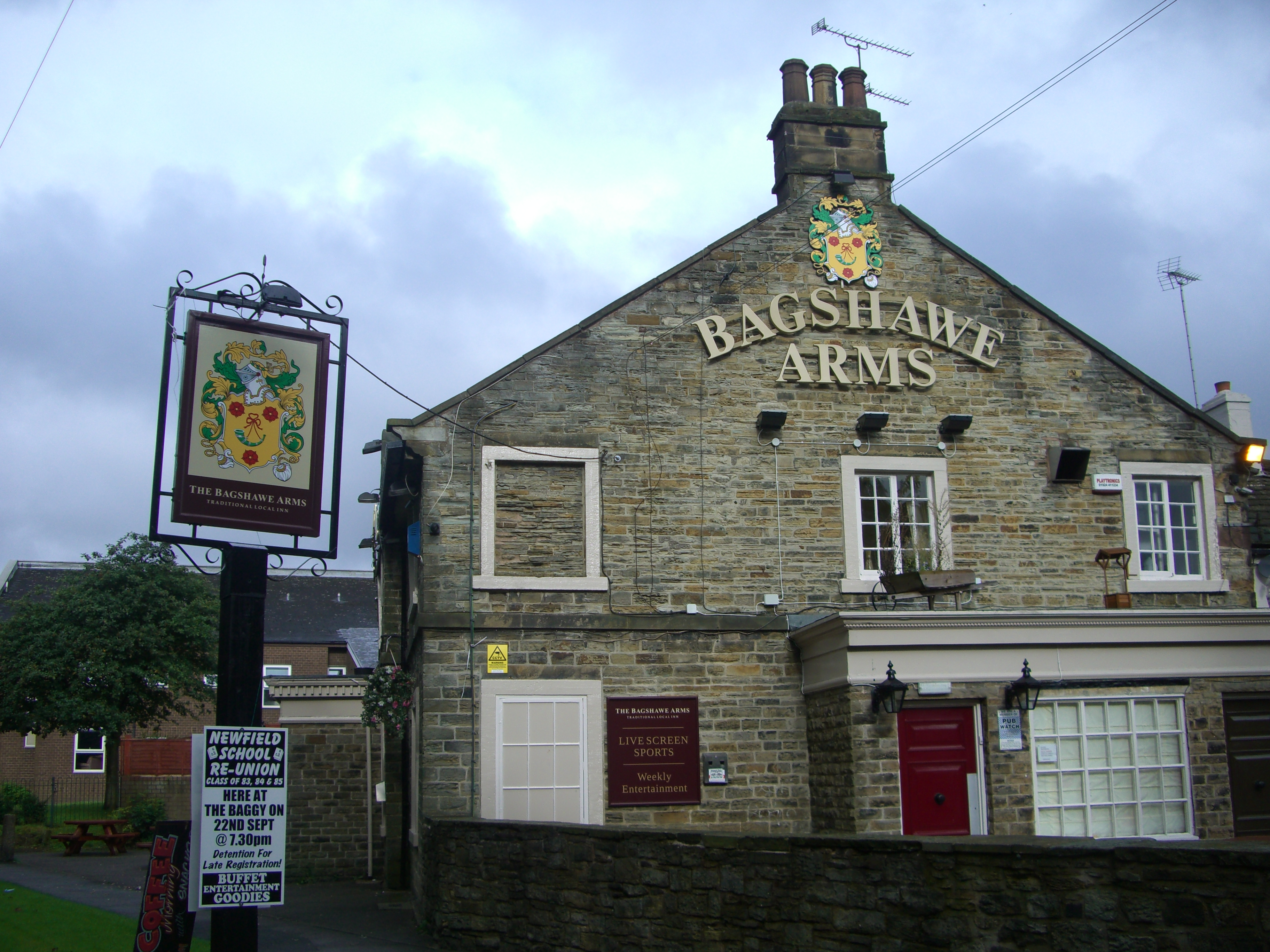 The Bagshawe Arms on Norton Avenue in the suburb of Norton, Sheffield, England